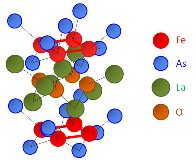 Crystal structue of LaFeAsO